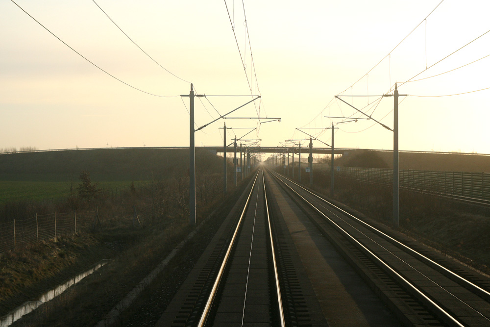 View from the tail of an Intercity train on the Berlin-Hannover high-speed railway line, eight kilometers east of Ribbeck.